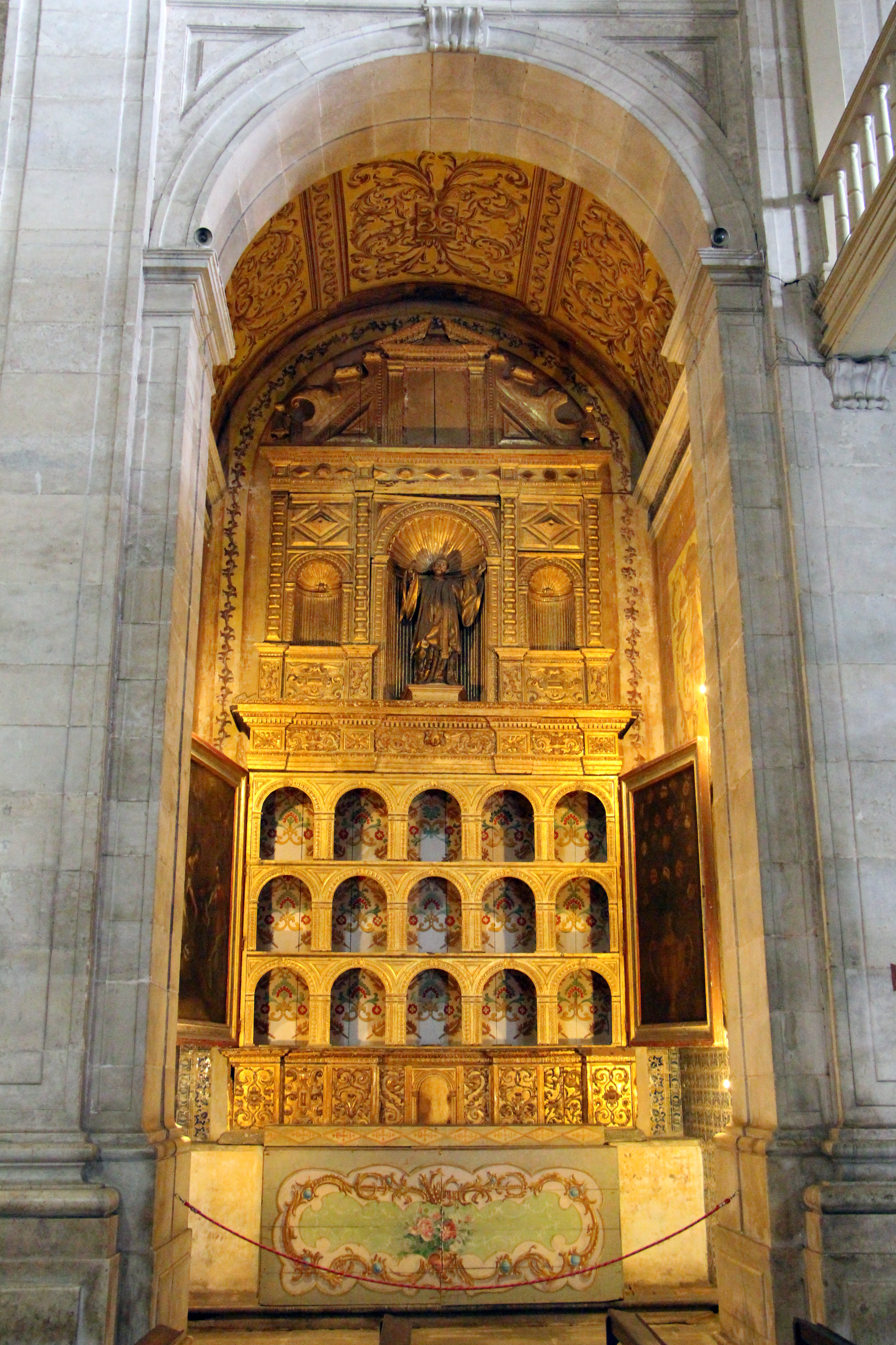 Cathedral-Basilica of Salvador